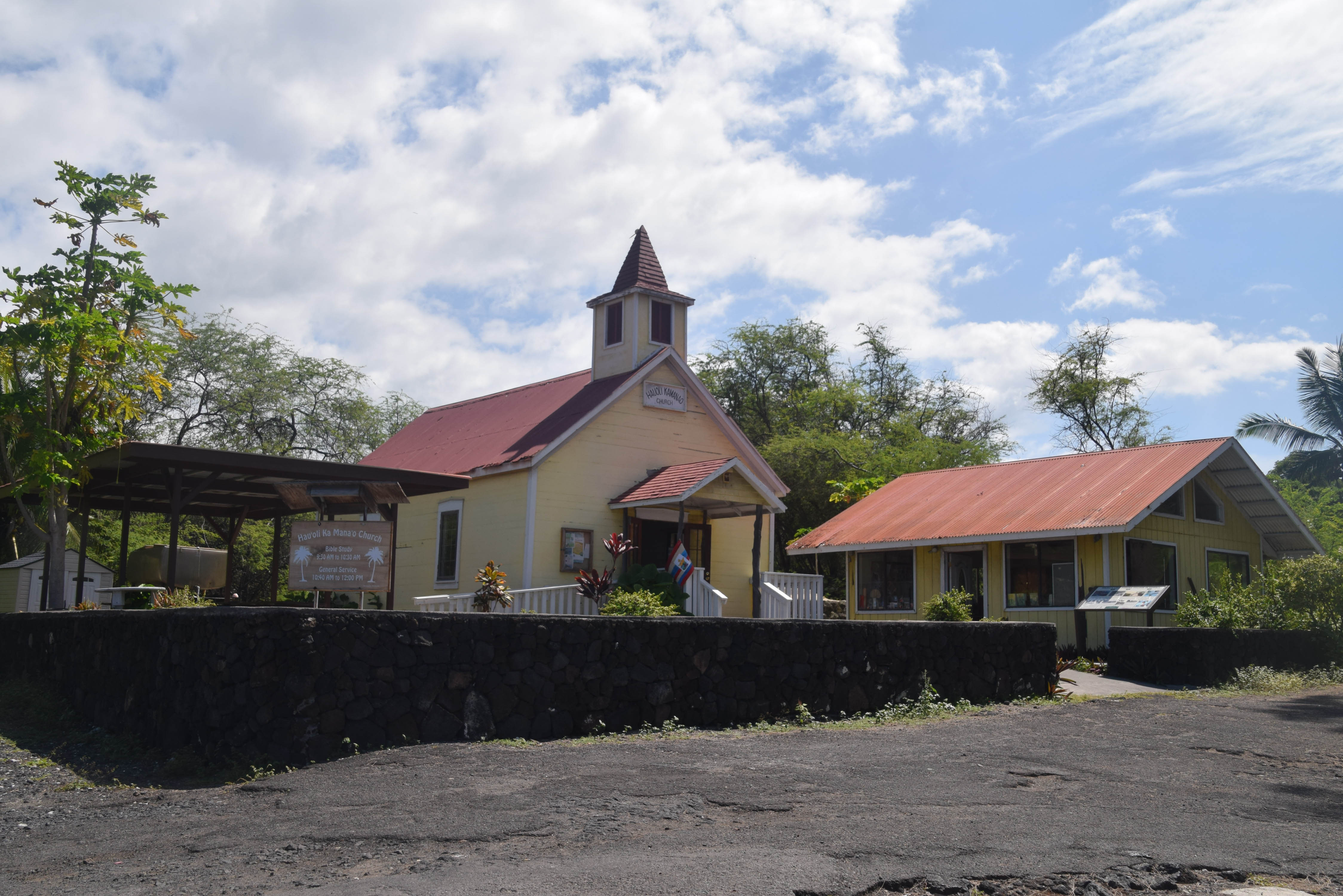 Hau'oli Ka Mana'o Church in Milolii, the Big Island, Hawaii